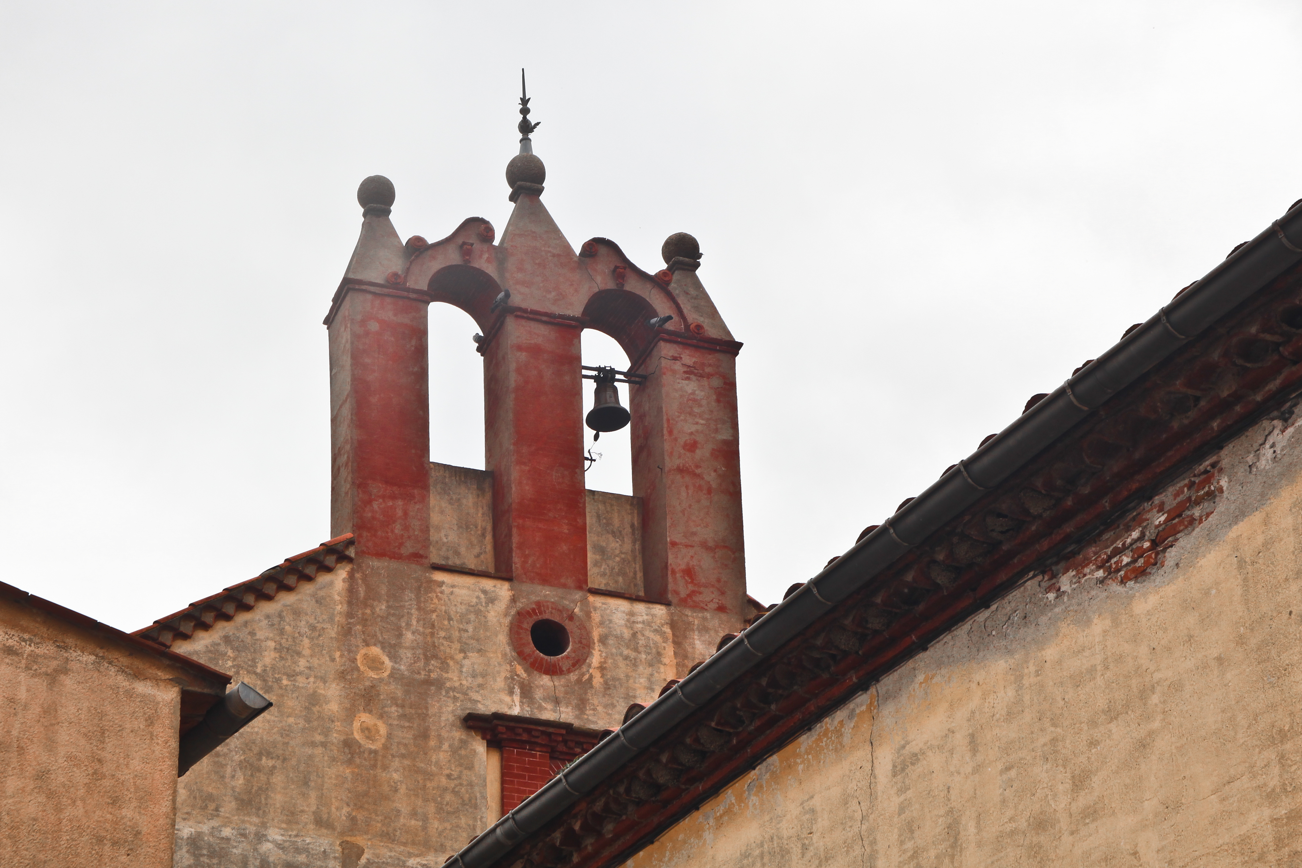 The chapel tower, St-Jacques hospice, Ille-sur-Têt, France